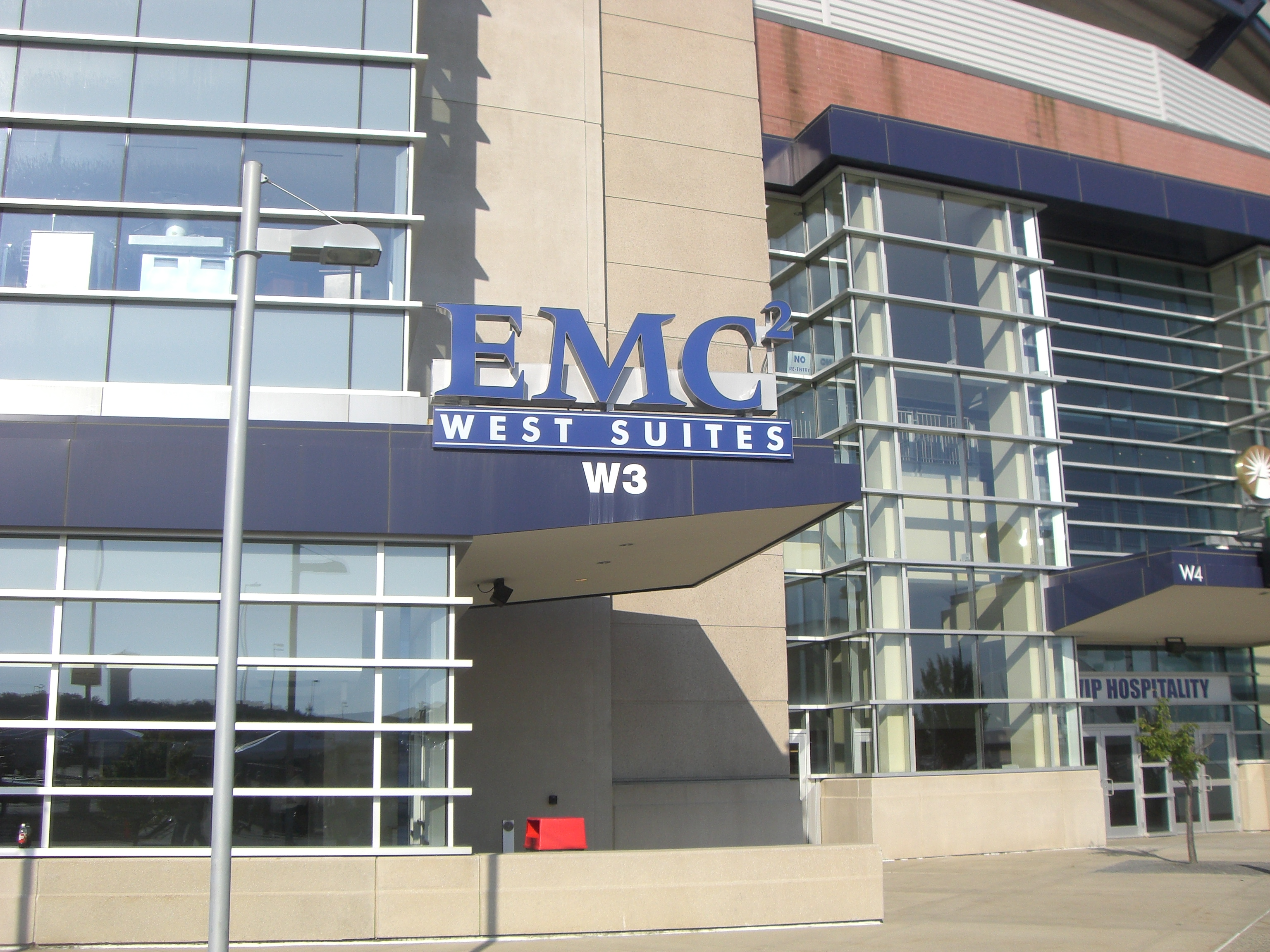 Gillette_Stadium_EMC_Suite